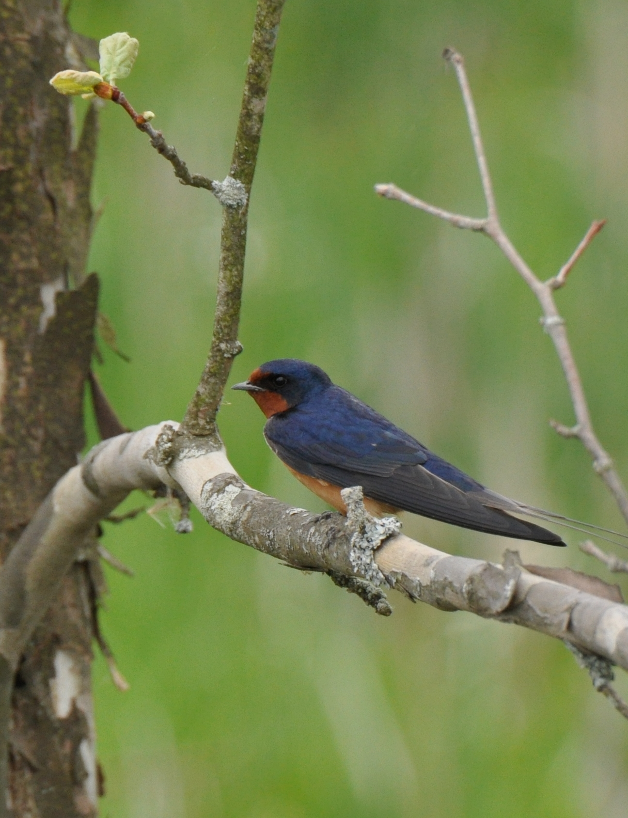 A Barn Swallow at Cuyahoga Valley National Park, Ohio, USA.